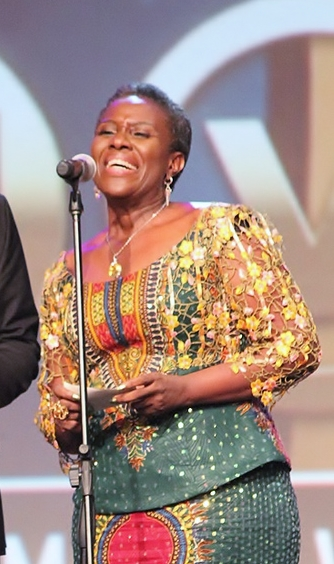 Joke Silva at the 2014 AMVCAs